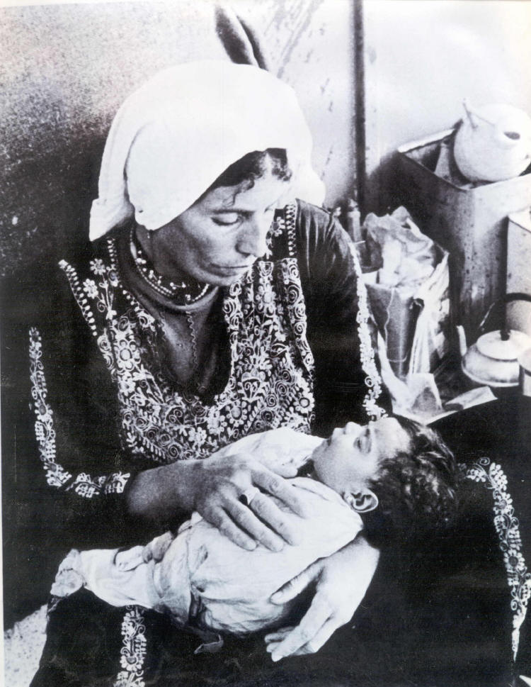 Palestinian woman with baby in 1948 Nakba